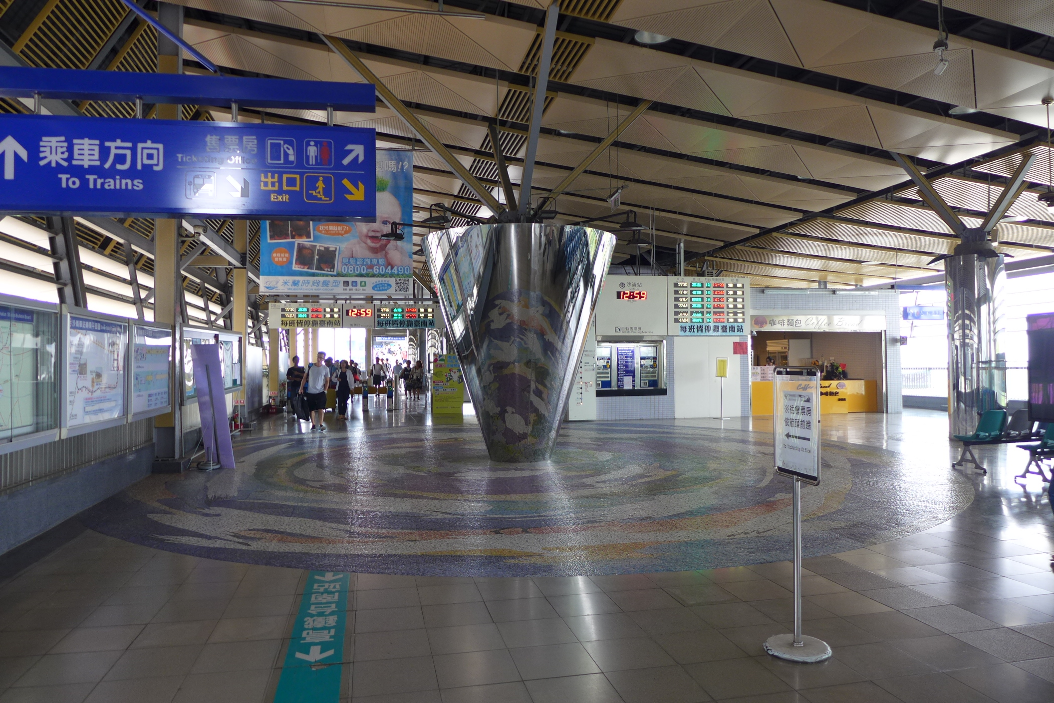 TRA Shalun Station Concourse